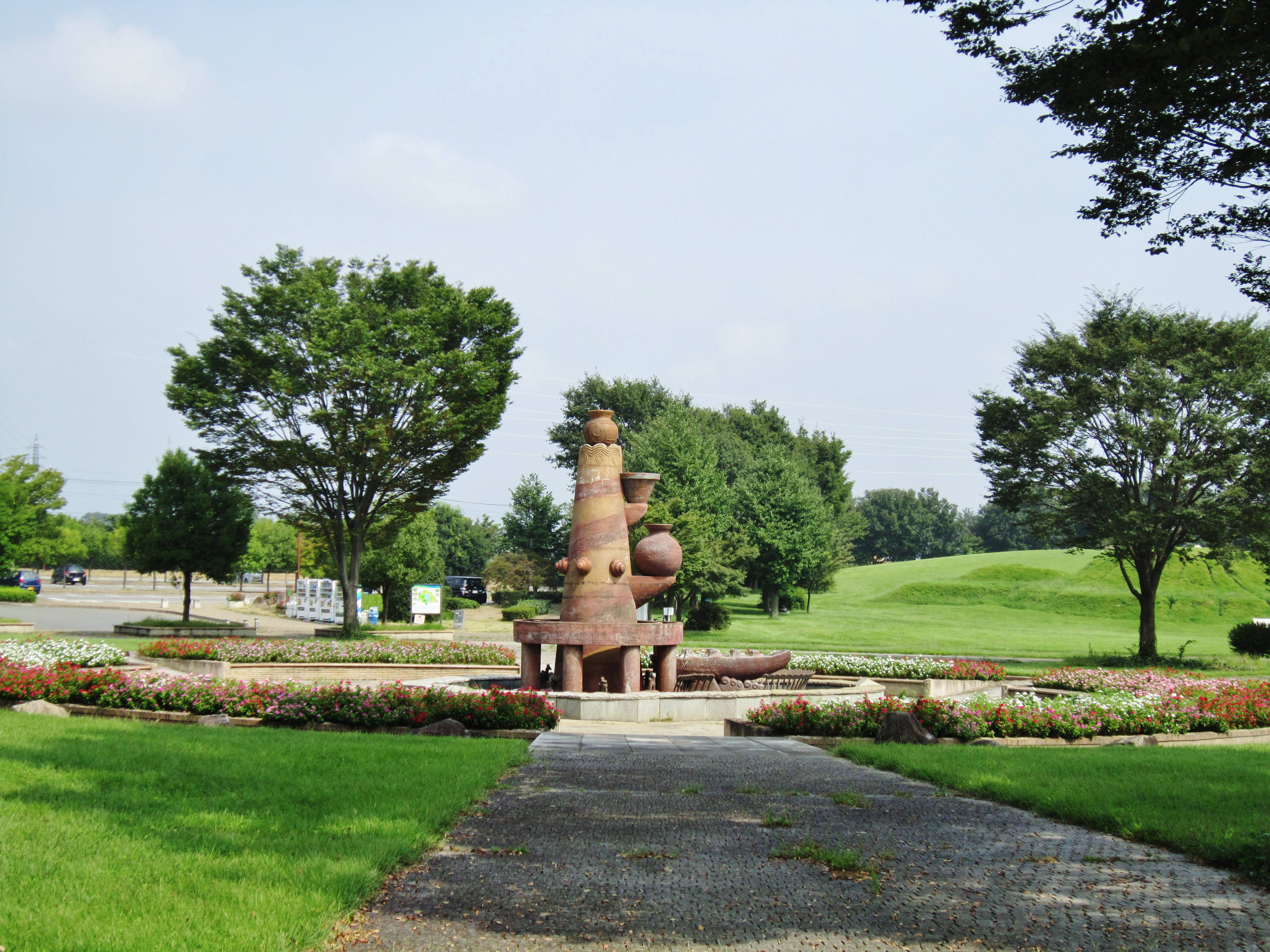 Omuro Park Toki-no-hiroba.